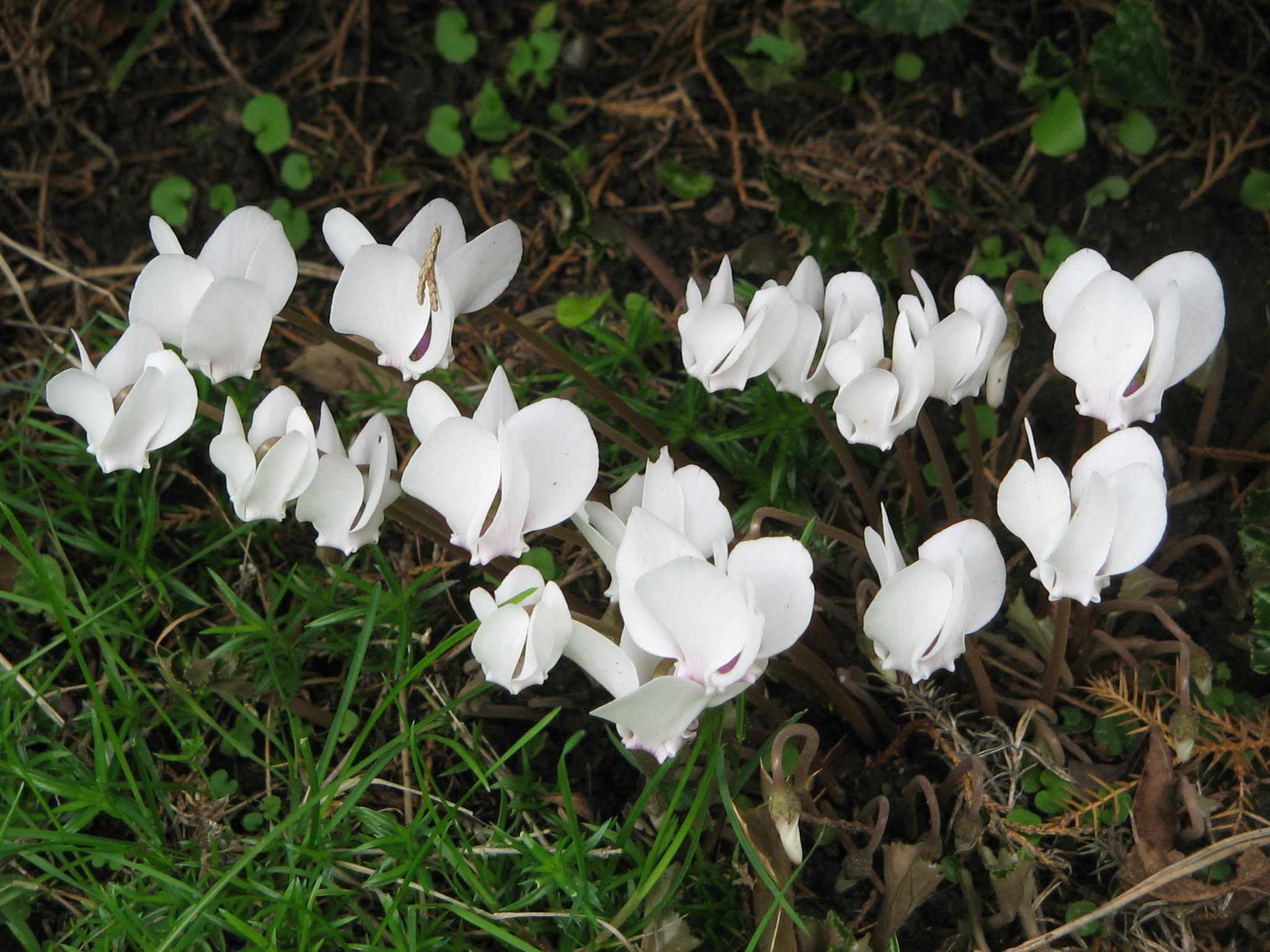 Cyclamen hederifolium 'Album'